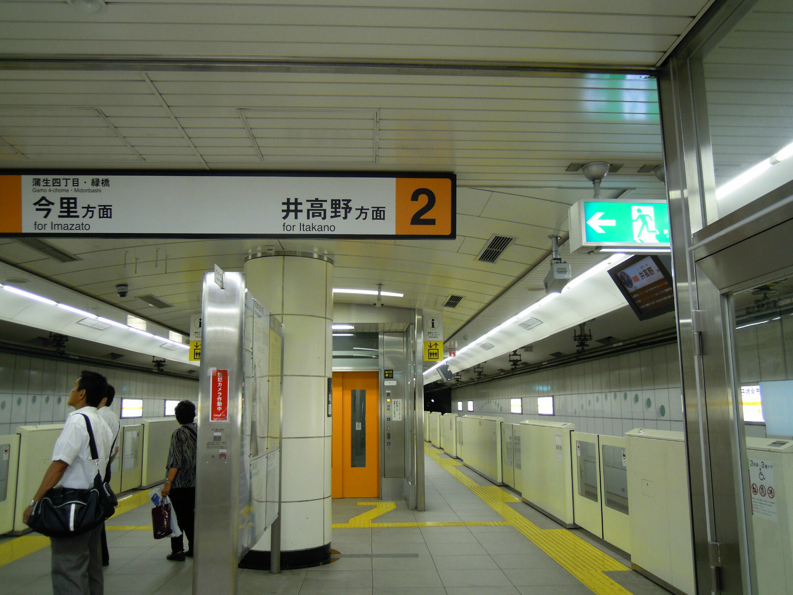 Imazato-Line Taishibashi-Imaichi station platform